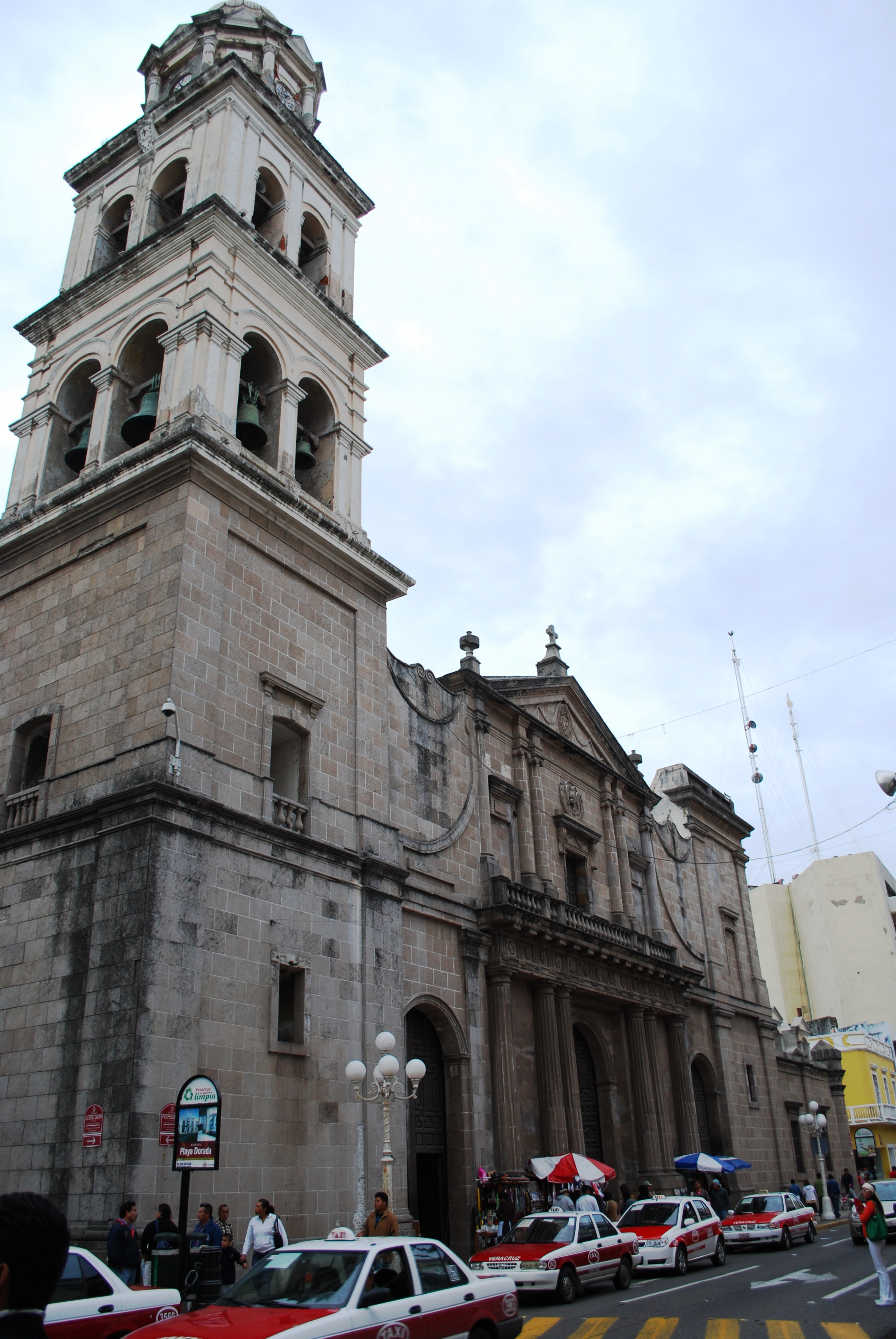 Facade of the Cathedral of Veracruz